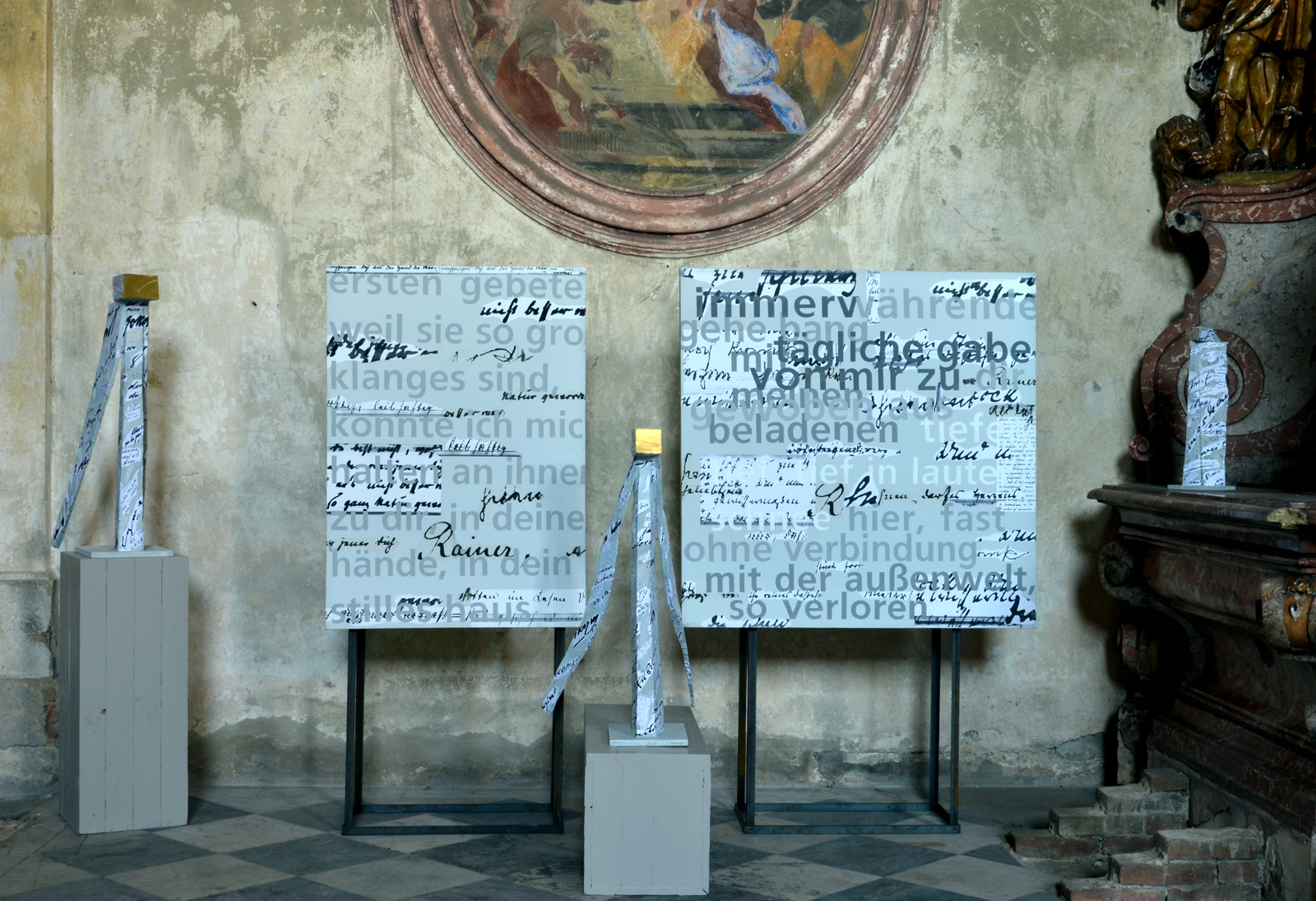 Sonia Jakuschewa, Letters for Lou (2005-2007) Angels (2015-2016), Baroque church of Annunciation, by Octavio Broggio, Litoměřice (Leitmeritz)